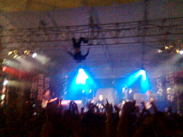 The singer for the Mint Chicks hangs upside down over the stage during a performance at Auckland University of Technology